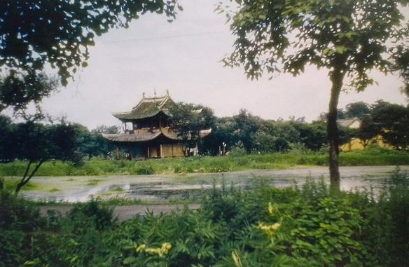 lake in Kunming